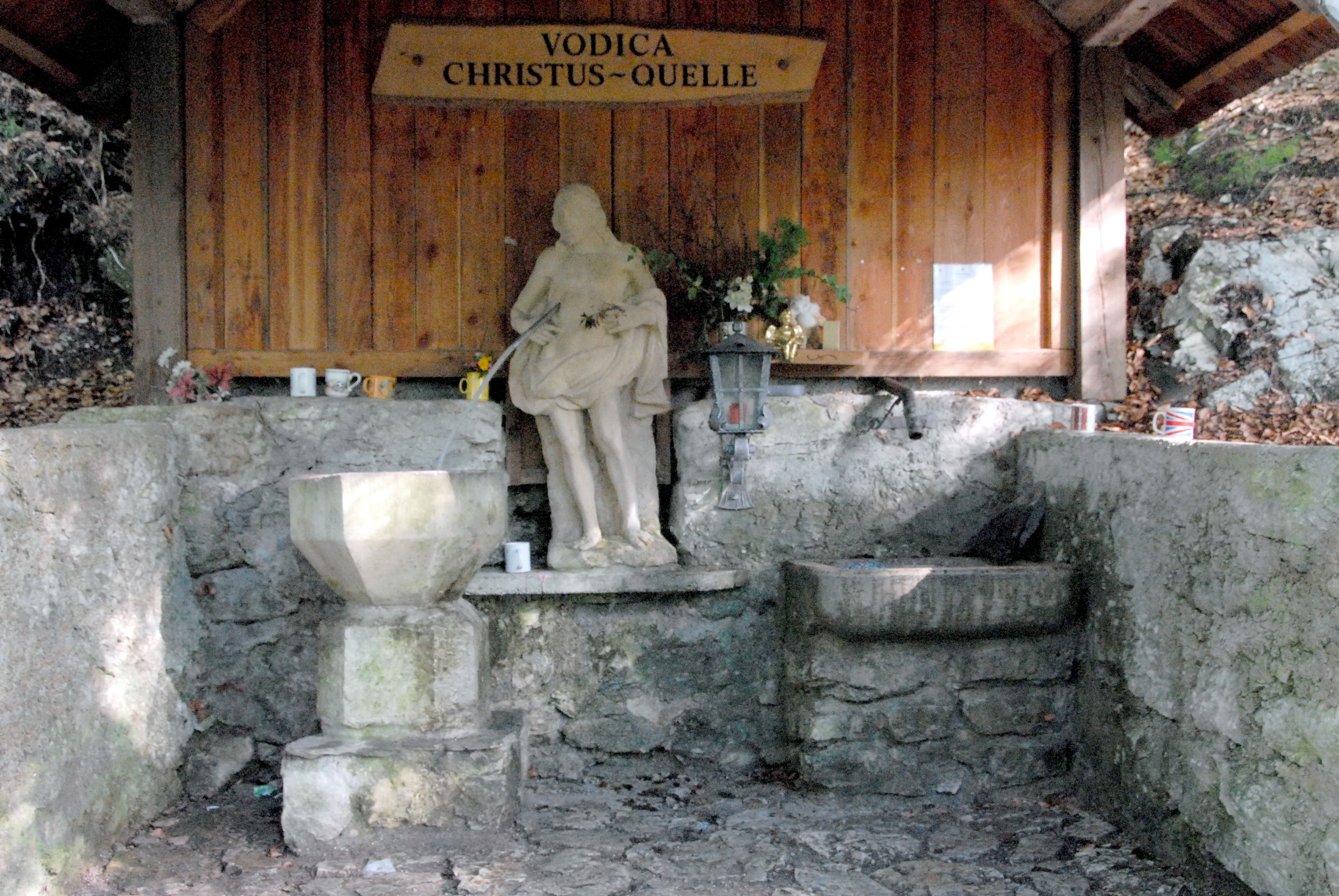 Water well "Vodica" on the Chapelmountain in the locality Maria Elend, municipality Sankt Jakob im Rosental, district Villach-Land, Carinthia, Austria